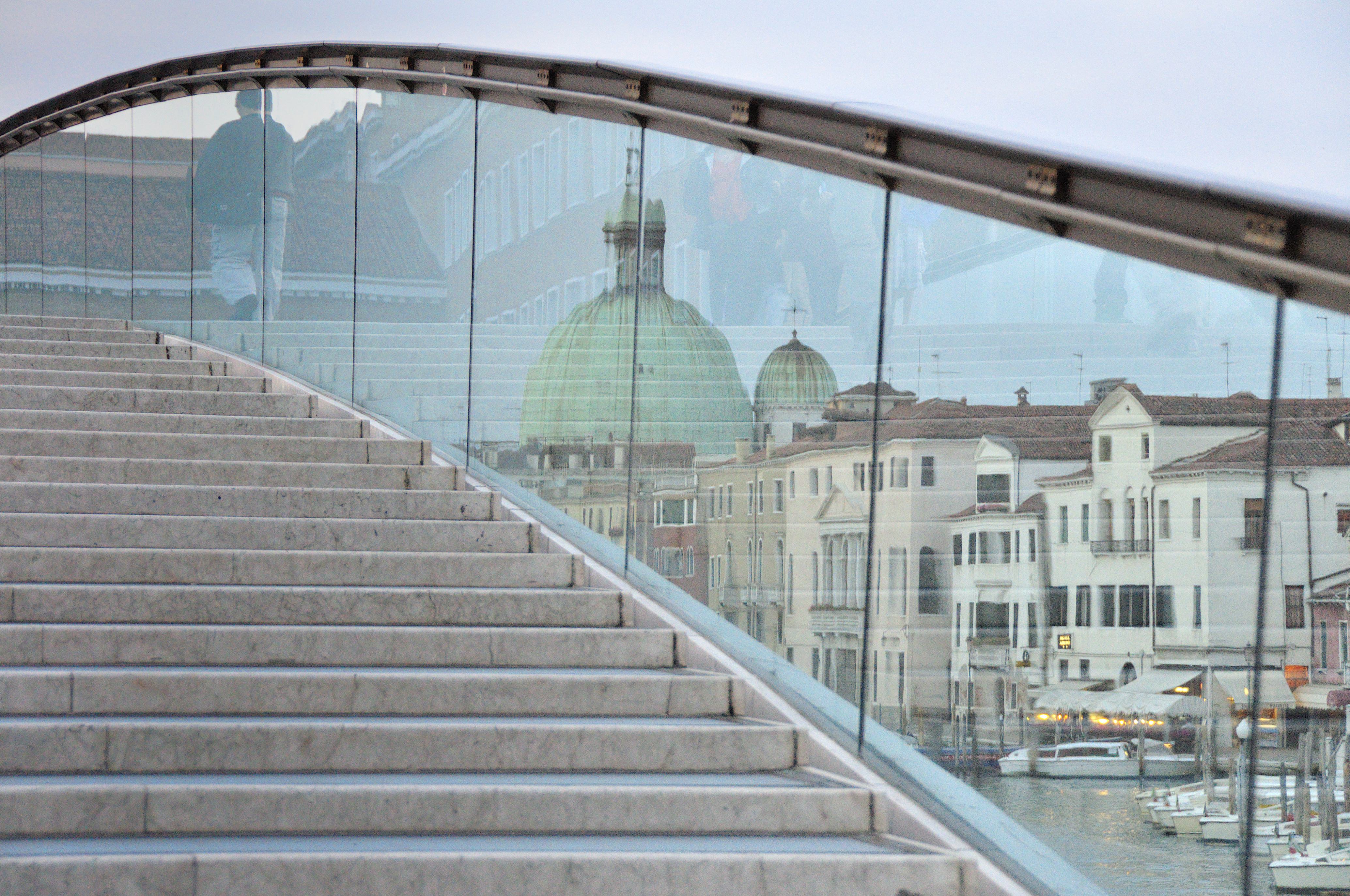 The water streets of Venice are canals which are navigated by gondolas and other small boats. During daylight hours the canals, bridges, and streets of Venice are full of tourists eager to experience the romance of this great travel destination. As night engulfs the town, tourists enjoy some fine dining at one of the many restaurants, leaving the waterways and streets quiet. The gondola is a traditional, flat-bottomed Venetian rowing boat, well suited to the conditions of the Venetian Lagoon. For centuries gondolas were once the chief means of transportation and most common watercraft within Venice. In modern times the iconic boats still have a role in public transport in the city, serving as ferries over the Grand Canal. They are also used in special regattas (rowing races) held amongst gondoliers. Their main role, however, is to carry tourists on rides throughout the canals. Gondolas are hand made using 8 different types of wood (fir, oak, cherry, walnut, elm, mahogany, larch and lime) and are composed of 280 pieces. The oars are made of beech wood. The left side of the gondola is longer than the right side. This asymmetry causes the gondola to resist the tendency to turn toward the left at the forward stroke. Venetian masks are a centuries-old tradition of Venice. The masks are typically worn during the Carnival of Venice, but have been used on many other occasions in the past, usually as a device for hiding the wearer's identity and social status. The mask would permit the wearer to act more freely in cases where he or she wanted to interact with other members of the society outside the bounds of identity and everyday convention. It was thus useful for a variety of purposes, some of them illicit or criminal, others just personal, such as romantic encounters.